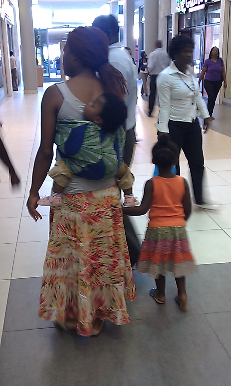 Lady carrying a child on the back using a chitenge as a baby sling in Lusaka, Zambia.